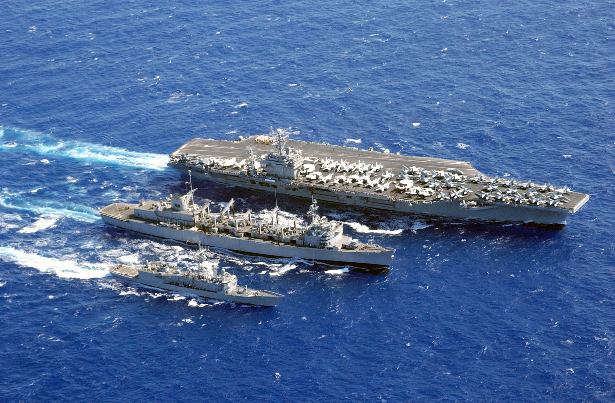 At sea with USS Carl Vinson (CVN 70) Feb. 10, 2003 -- The guided missile frigate USS Ingraham (FFG 61) takes on fuel from the starboard side of the fast combat support ship USS Sacramento (AOE 1) while the aircraft carrier USS Carl Vinson receives cargo via Vertical Replenishment (VERTREP) during a Replenishment at Sea (RAS). The battle group is operating in the Western Pacific Ocean. U.S. Navy Photo by Photographer's Mate Airman Dustin Howell. (RELEASED)